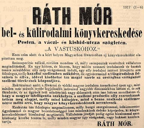 Ráth Mór's article